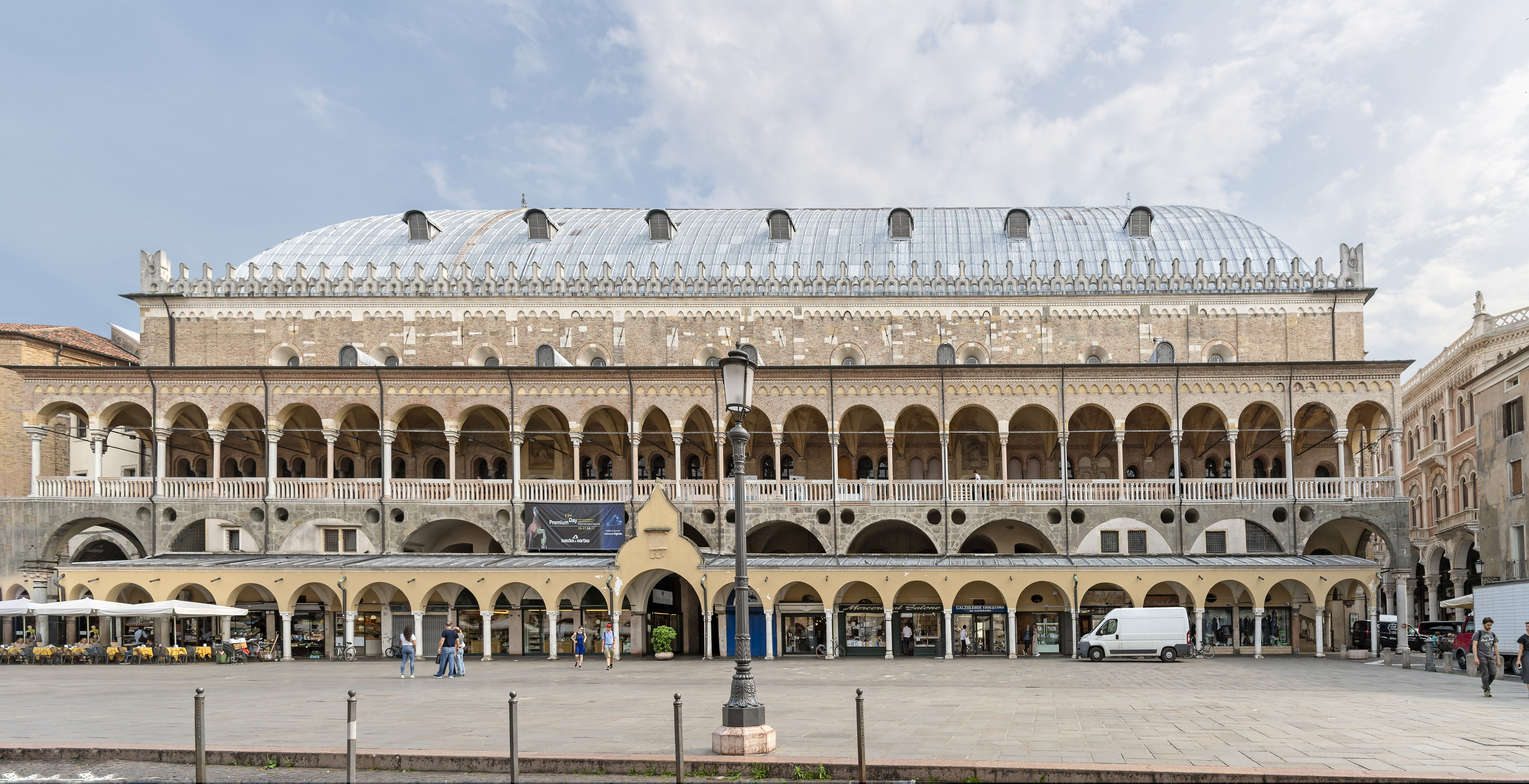 Palazzo della Ragione, Padua (1172–1219) : The Palace of the Reason of Padua is the old seat of the administration and the courts of the city. View from Piazza della Frutta.